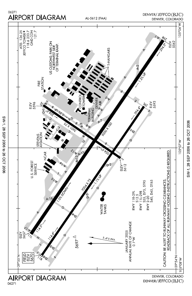 FAA diagram for Rocky Mountain Metropolitan Airport (BJC), formerly Jefferson County Airport, in Denver, Colorado. Note: this URL changes monthly; the airport article should contain a link to the current FAA diagram. Produced by the National Aeronautical Charting Office (NACO), a department of the Federal Aviation Administration (FAA).